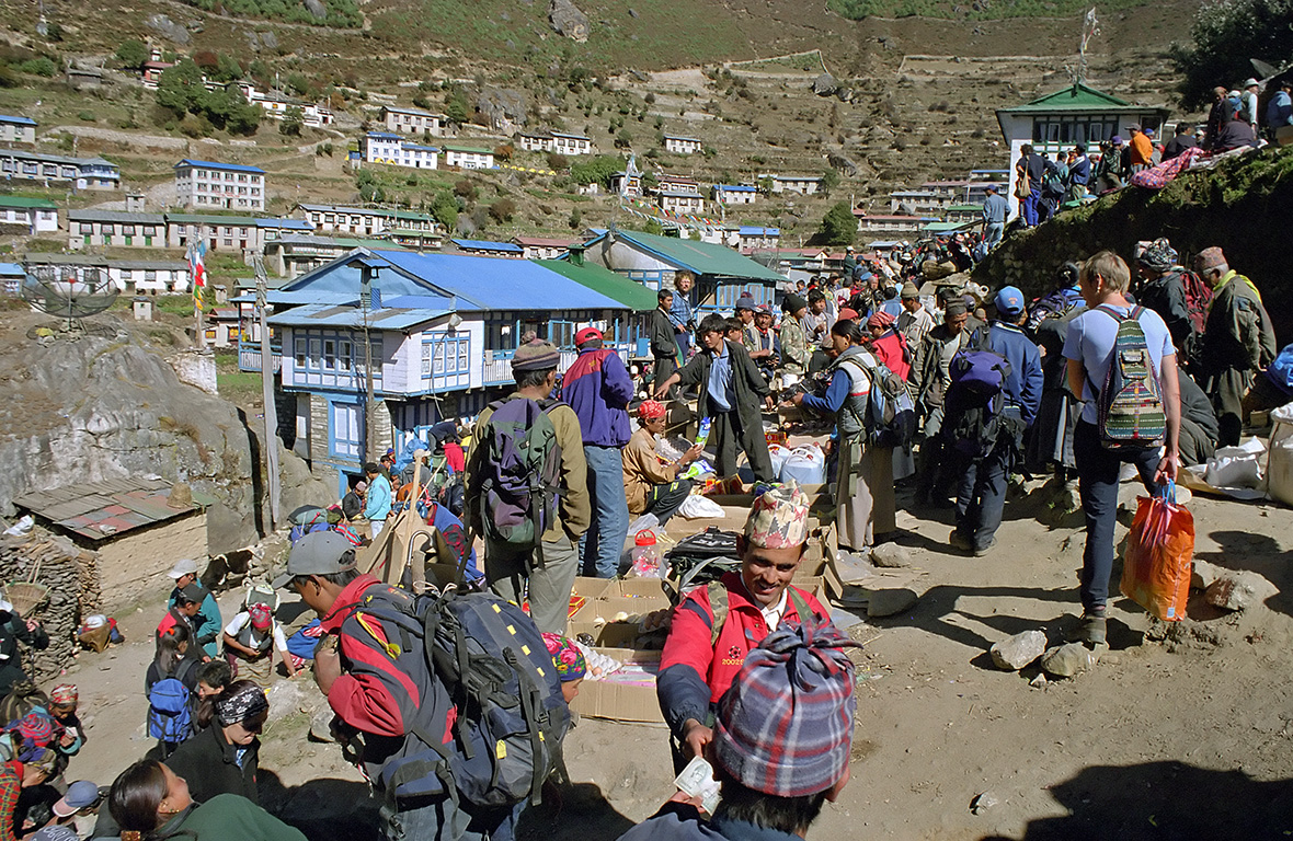 market day at Namche Bazar (Khumbu, Nepal)